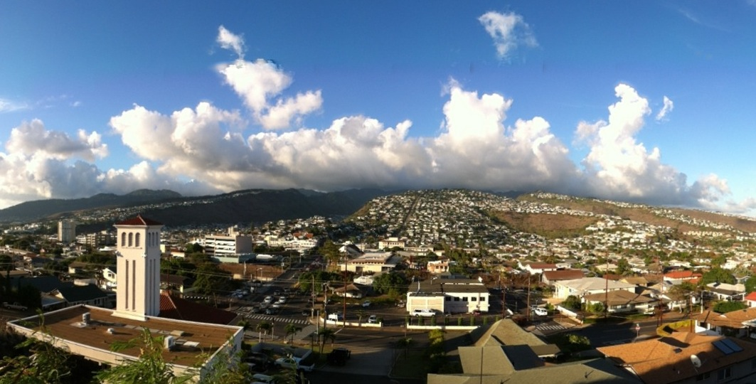 View of the neighborhood of Kaimuki